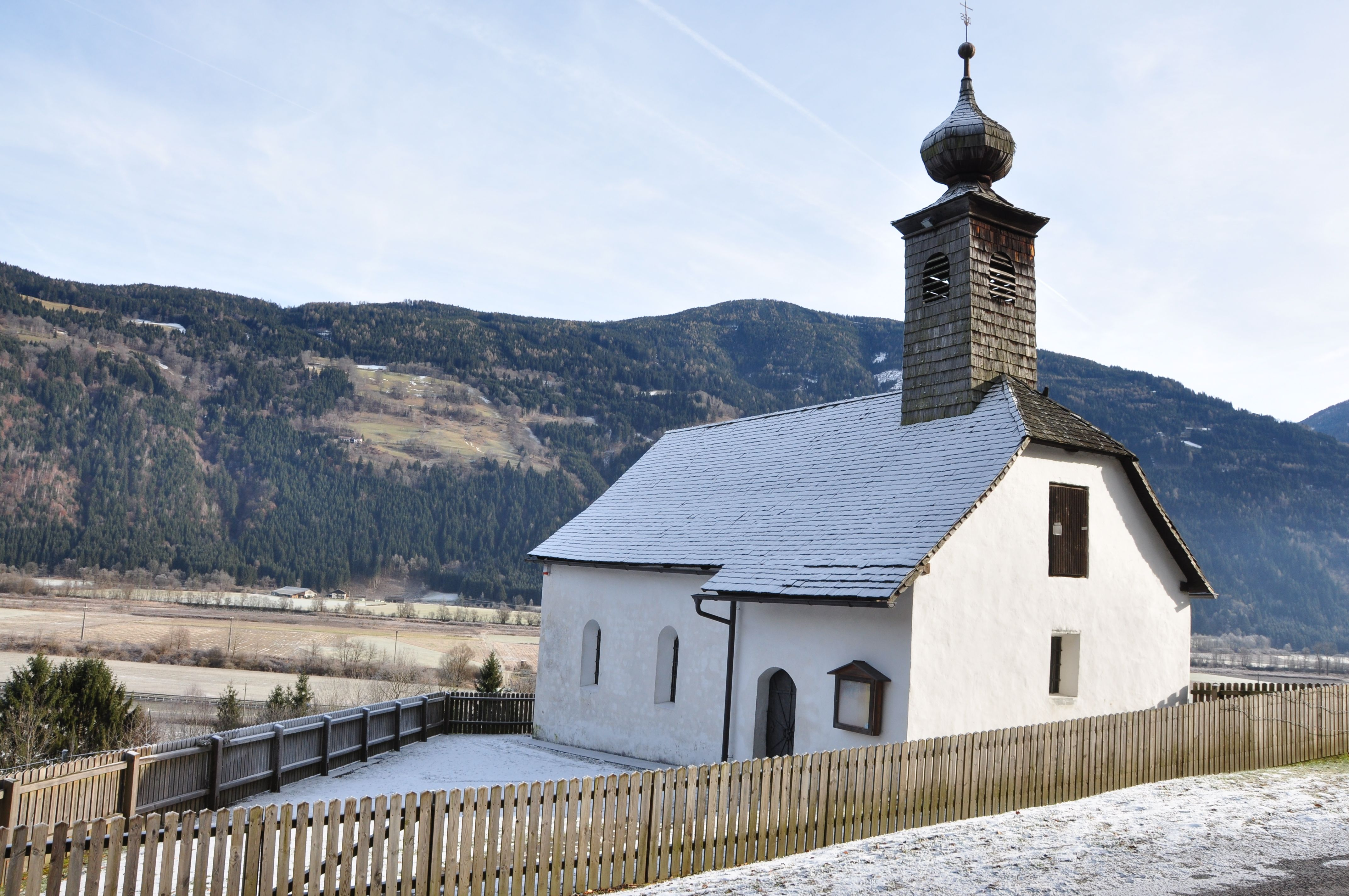 Subsidiary church Saint Rupert at Obergottesfeld, municipality Sachsenburg, district Spittal an der Drau, Carinthia / Austria / EU